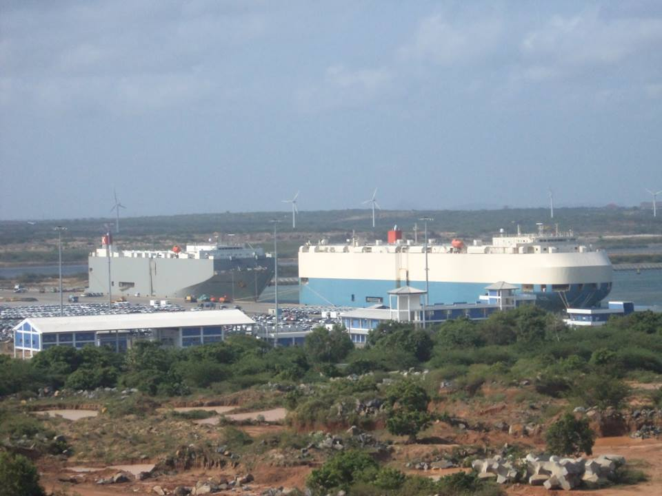 Hambantota Port Docks two ships